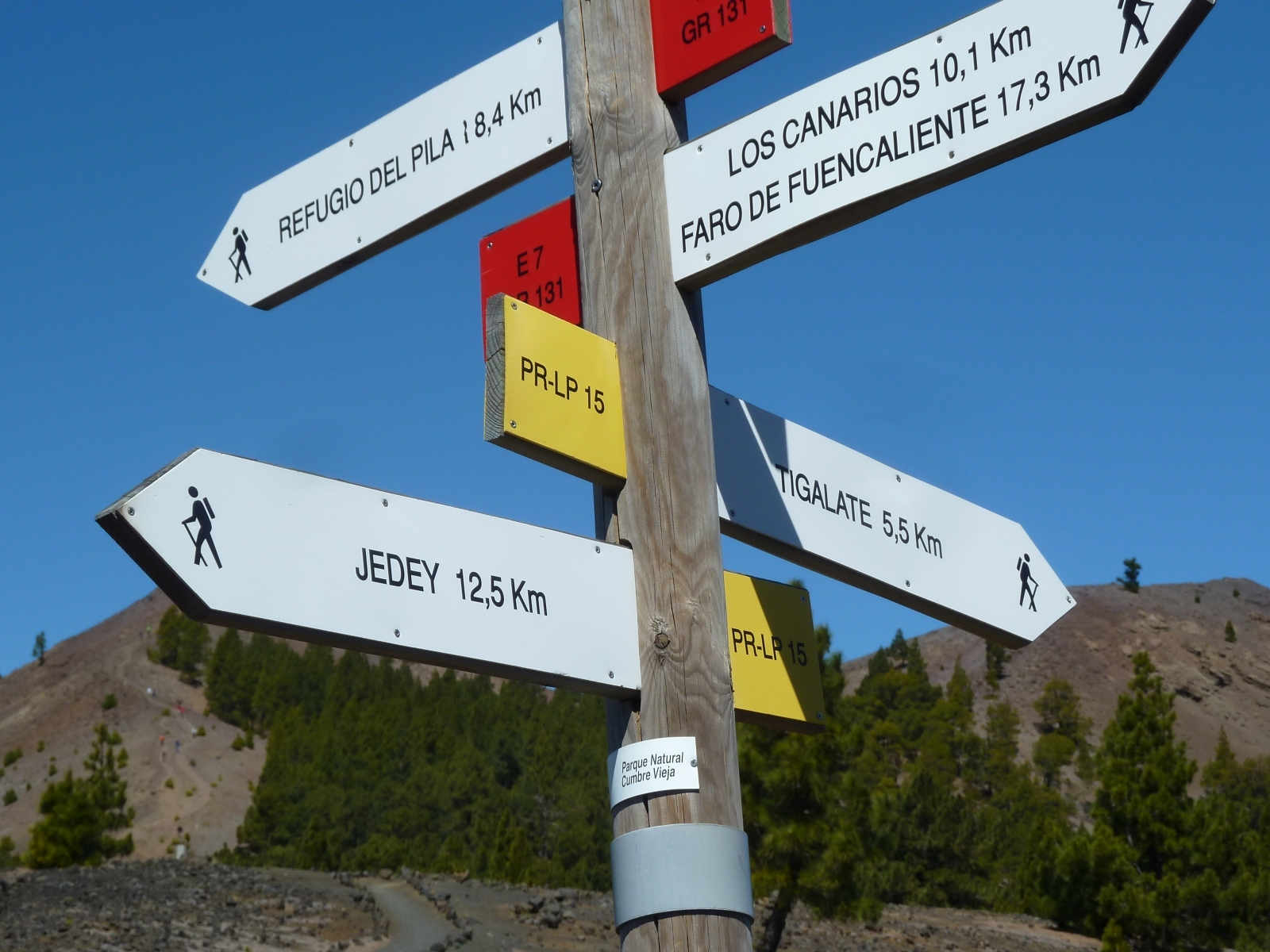 Signpost of the Ruta de los Volcanes (Cumbre Vieja, La Palma)